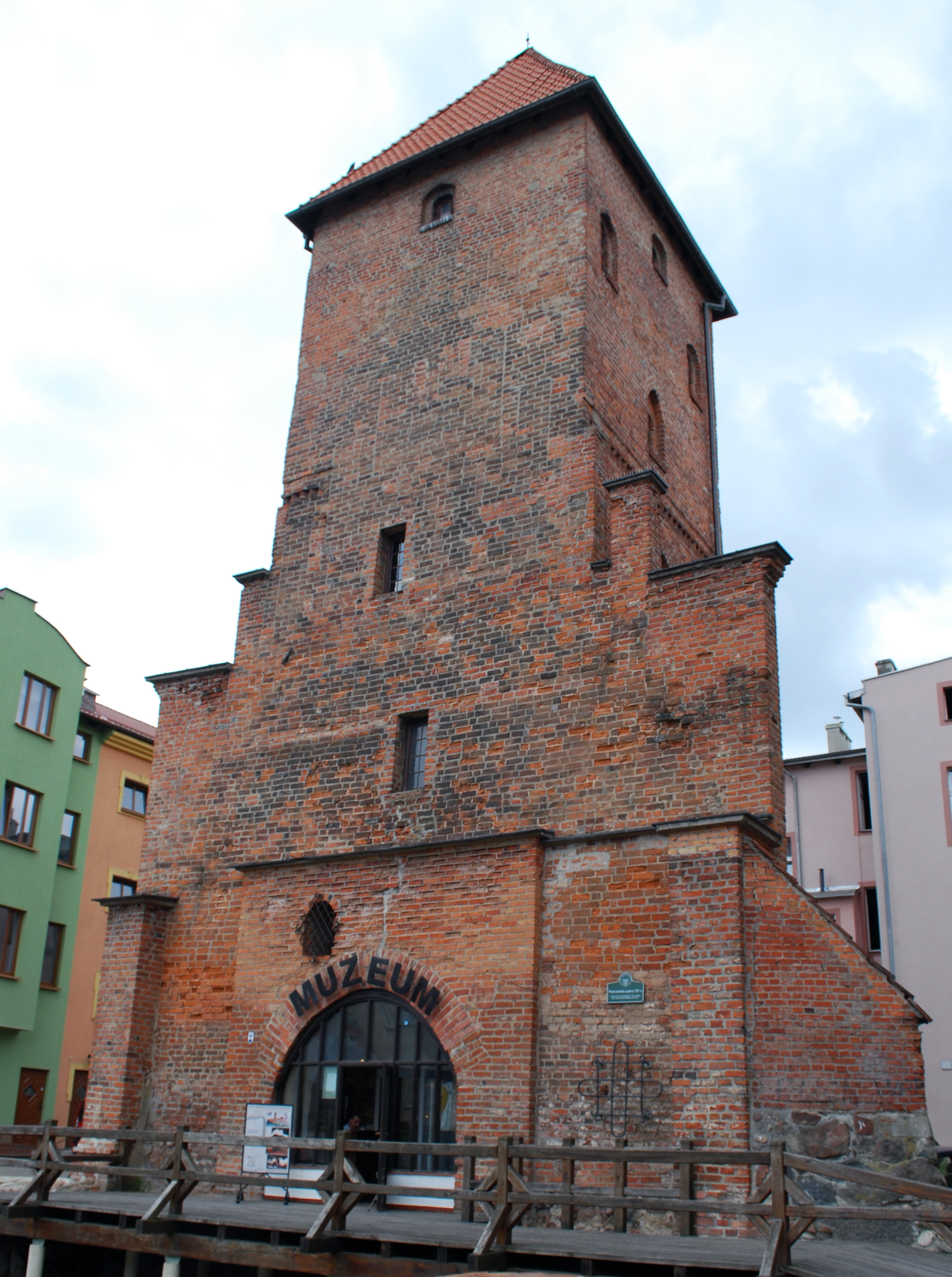 Tower of the ruin of the old St. Catherine's Church in Bytów